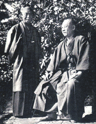 Japanese Prime Minister Keisuke Okada (岡田啓介, 1868–1952, in office 1934–36, right) and his brother-in-law and personal secretary, Denzō Matsuo (松尾伝蔵).